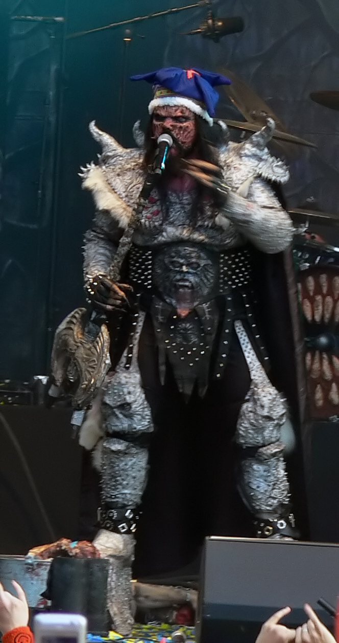 Mr. Lordi singing Bringing Back The Balls To Rock и кончи!